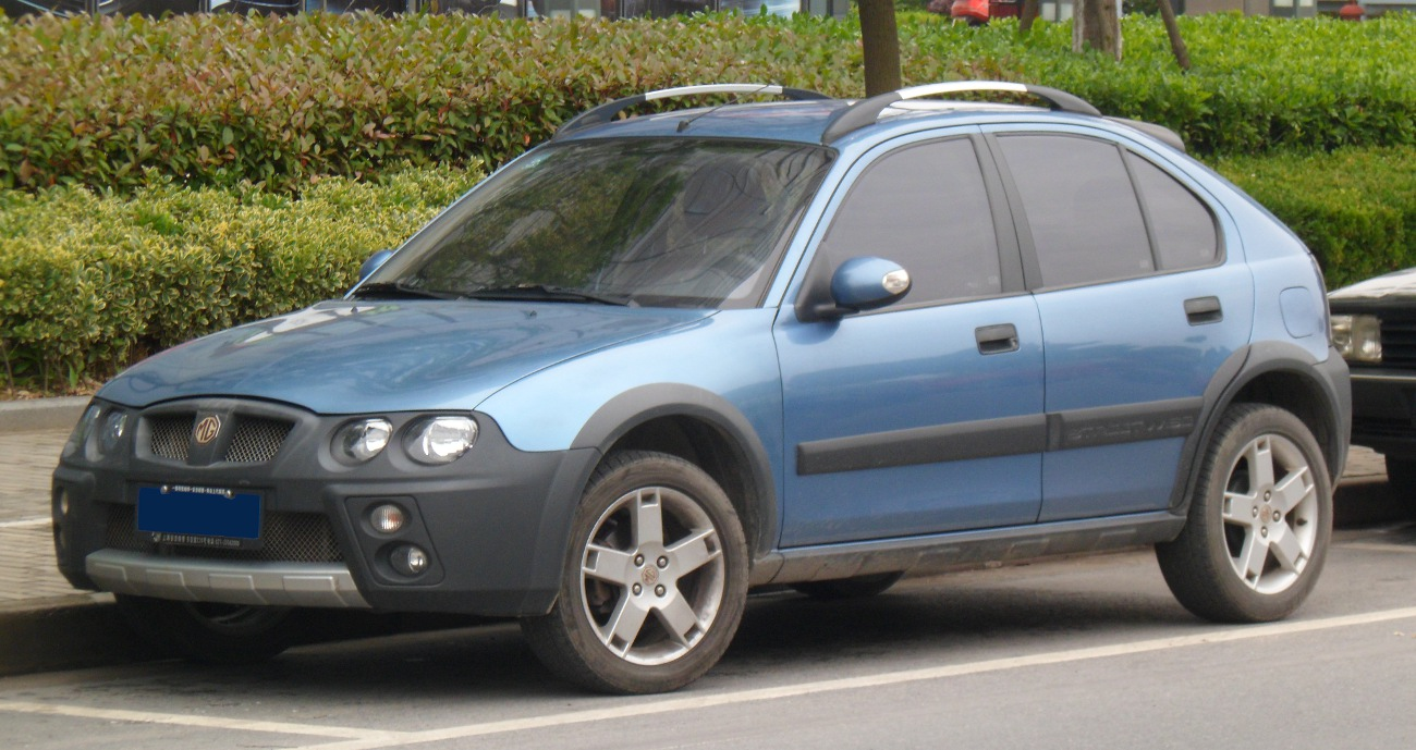 MG 3 photographed in Shanghai, China.